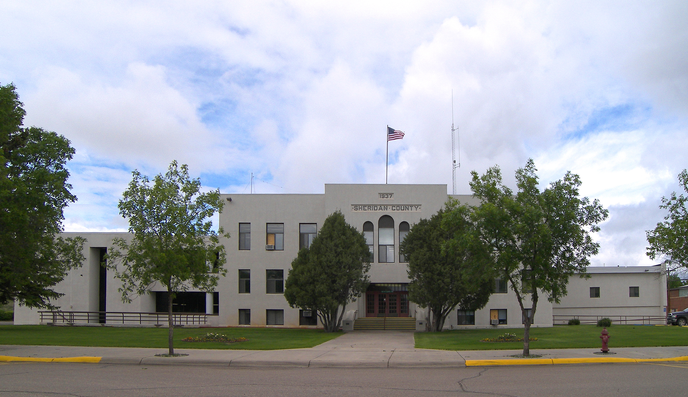 The Sheridan County, Montana Courthouse located in Plentywood, Montana, United States.